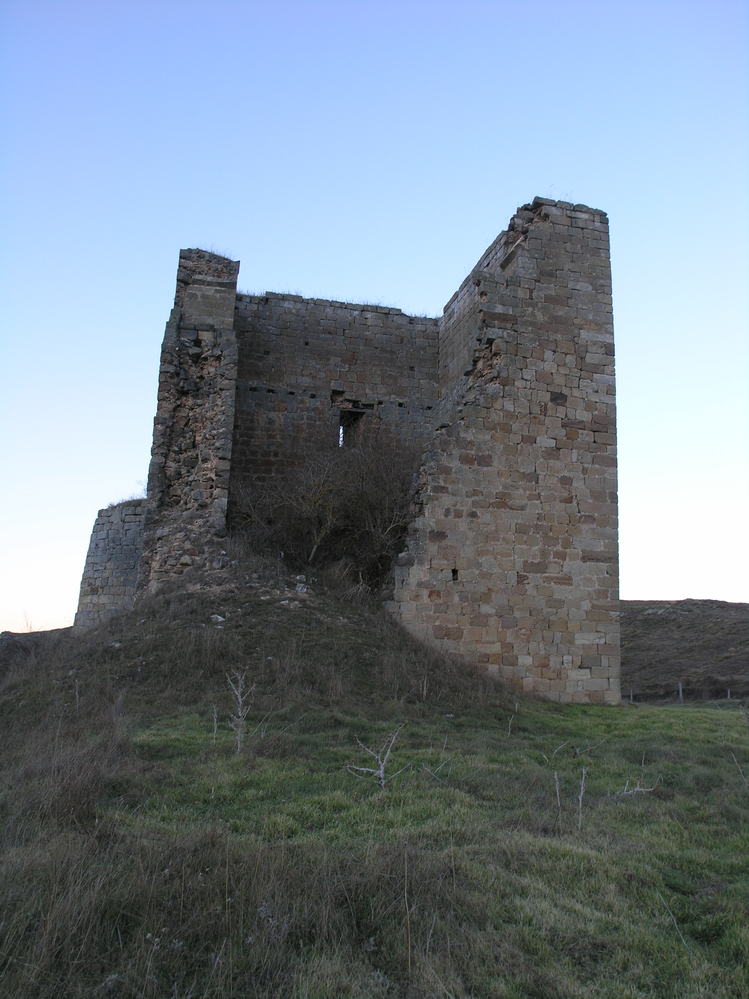 Ruerrero Tower (Valderredible, Cantabria, Spain), 14th-15th centuries. Square plan, 10 metres each side, and around 13 metres high. The south-western corner has collapsed. There's a buttress in the north-western corner, as a round turret 5 metres high.